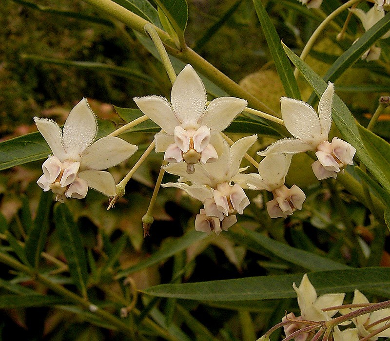 Gomphocarpus fruticosus